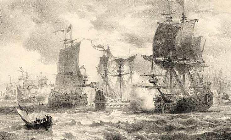 Seabattle by St. Vincent, 4 nov. 1641. Etching.